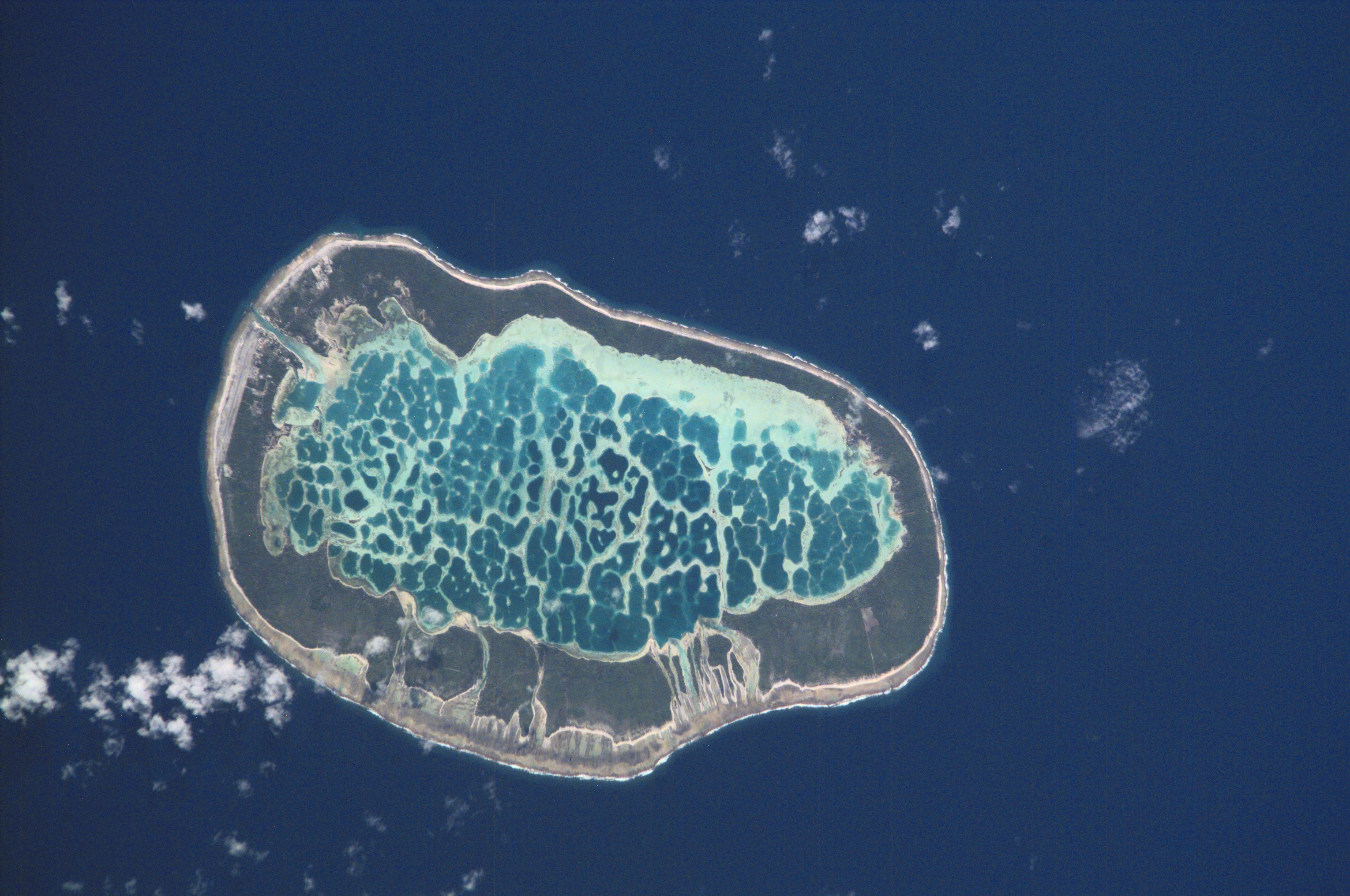 NASA astronaut image of Mataiva Atoll (Tuamotu Archipelago, French Polynesia) in the Pacific Ocean